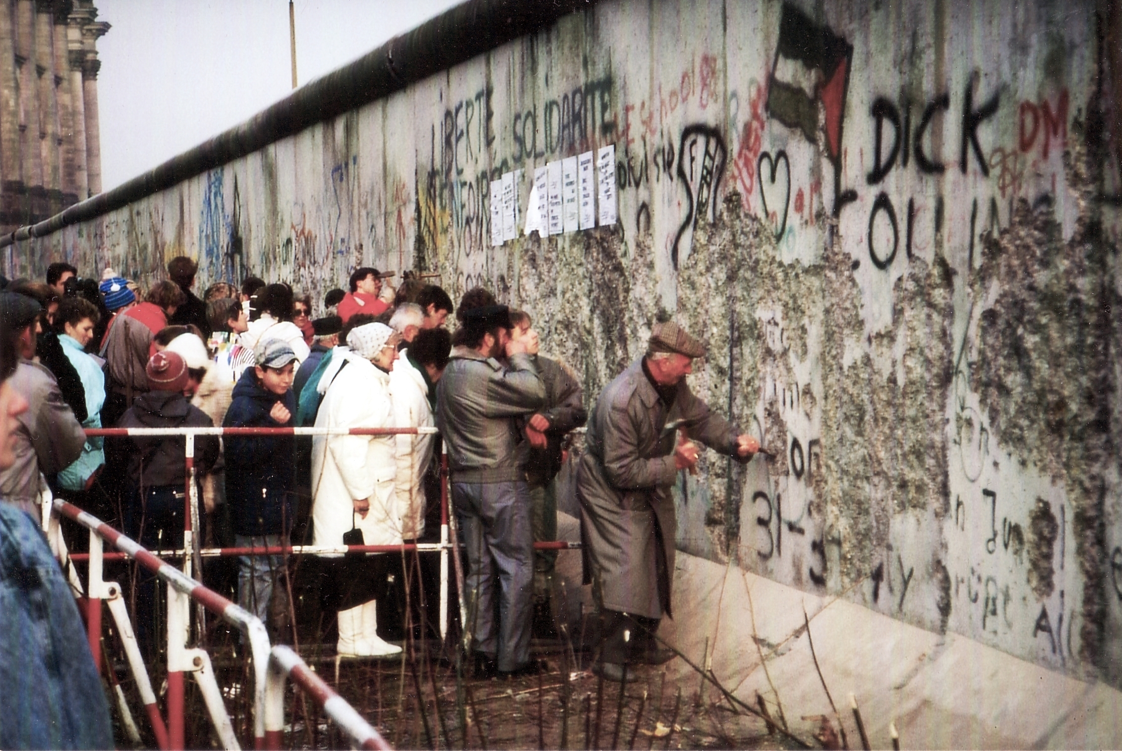 Berlin Wall between Reichstag building and Brandenburger Gate